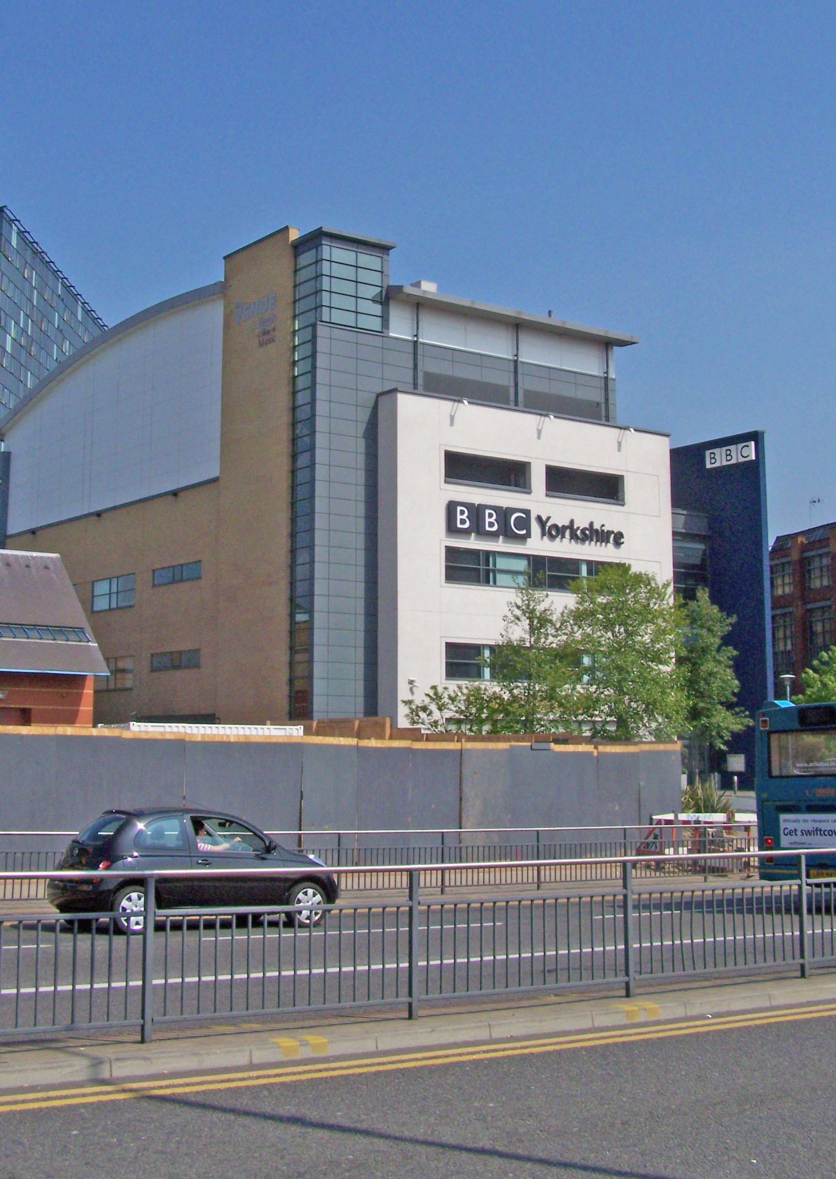 BBC_Yorkshire